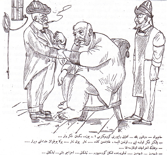 Caricature of Emperor Franz Joseph of Austria who is at the doctor because he wants to find out why he got so fat. The doctor tells him, that he has the "boycott sickness" (meant is the Ottoman boycott of Austria-Hungary; Austrian goods couldn't be exported to Osman Empire anymore, so all the goods remain in his body in this caricature) Turkish text in german translation as mentioned in Heinzelmann, S. 126f. deutsche Übersetzung des türkischen Textes in der Karikatur laut Heinzelmann, S. 126/127: Hacivad (rechts im Bild): Herr Doktorm haben Sie das Untersuchungsergebnis gesehen? Er hat 80 % Zucker Karagöz (der Arzt): Wenn es nur Zucker wäre... Kleider aus Gras, Papier aus Hobelspänen, was es da nicht alles gibt? Man nennt das die Boykottkrankheit... Hacivad: Das heisst, wenn nicht ausgeführt wird, stehts schlecht... Karagöz: Zweifellos, zweifellos, ich sehe auch keine Möglichkeit zu einer Behandlung... gefährlich, gefährlich, Apothekermeister